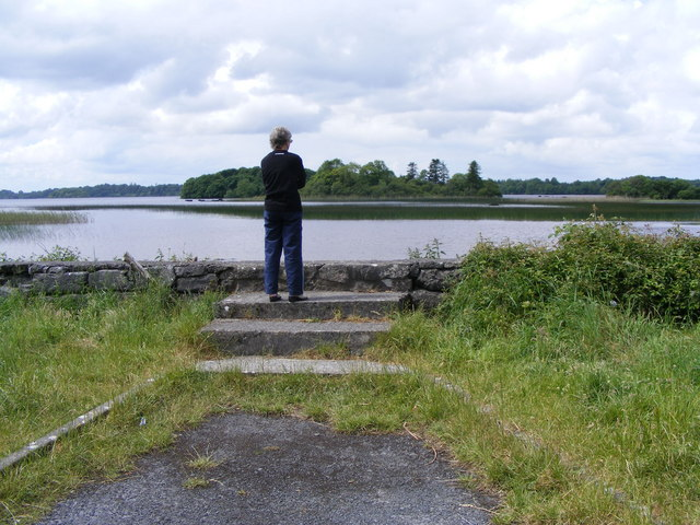 Lough Cutra & Parsons Island - Ballyturin Townland